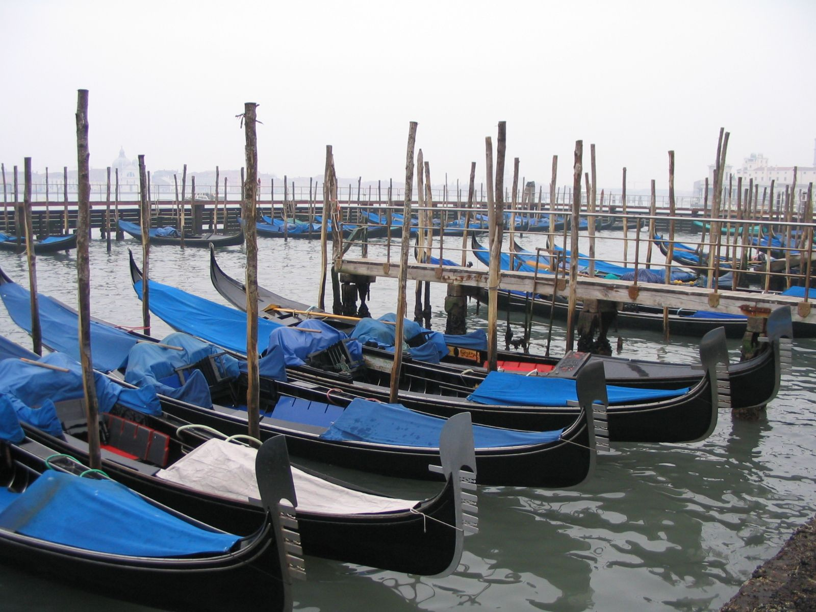 Batch Photo By wanblee =